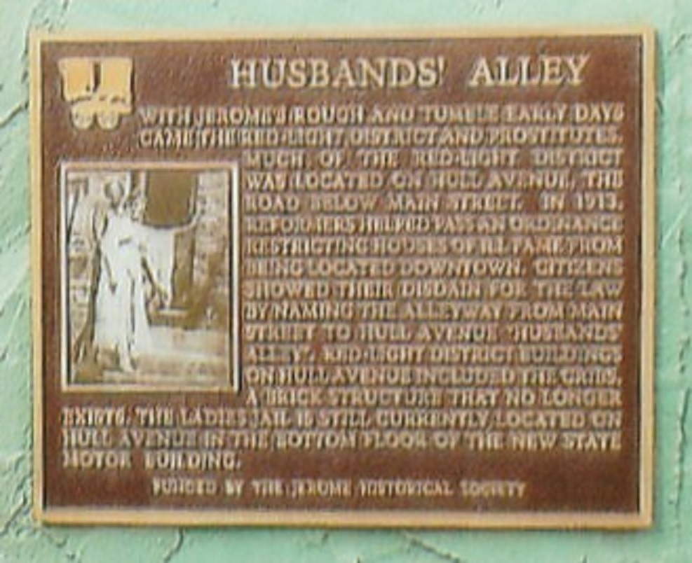 Husbands Alley marker within the Jerome Historic District in Jeroem, Az.